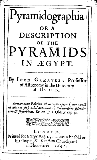 Title page of John Greaves: Pyramidographia, or, A description of the pyramids in Ægypt. George Badger, London 1646